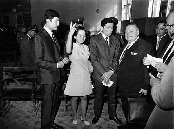 Dr Mohammad al-Fadel, the attorney and future rector of Damascus University, with Leila Khaled, the member of the Popular Front for the Liberation of Palestine (PFLP) who made world headlines at the age of 25 when she high-jacked a TWA Flight 840 heading from Rome to Athens on August 29, 1969. She was arrested in London after another high-jacking of an Israeli El Al Flight heading from Amsterdam to New York in September 1970. Fadel was one of those who defended her and she was released by the British on October 1, 1970.